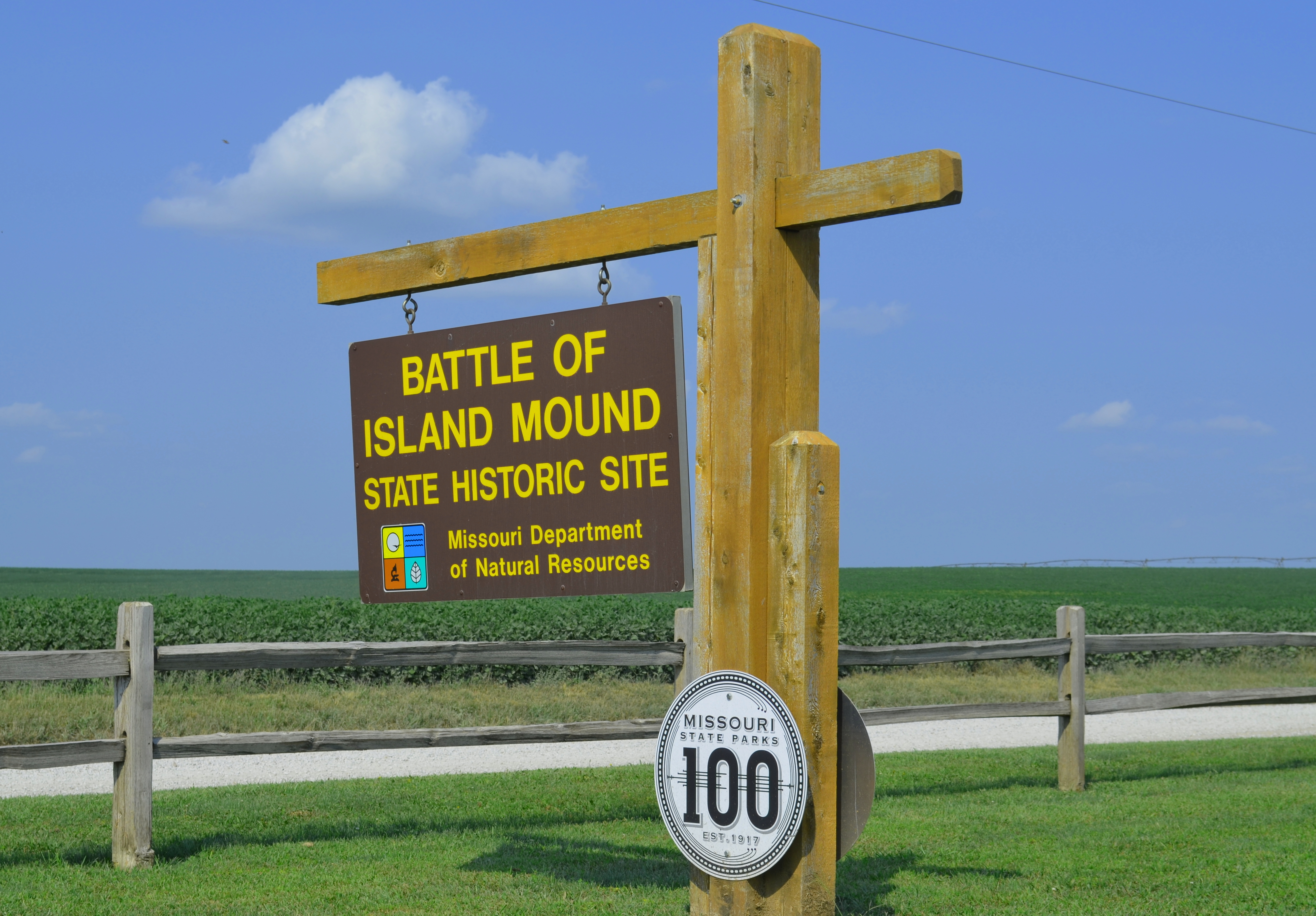 Signage at the entrance to Battle of Island Mound (Missouri) State Historic Site.